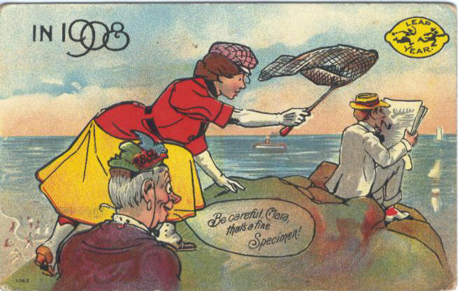 Postcard: Leap Year, 1908 Description: "In 1908 / 'Be Careful, Clara, that's a fine Specimen!'"